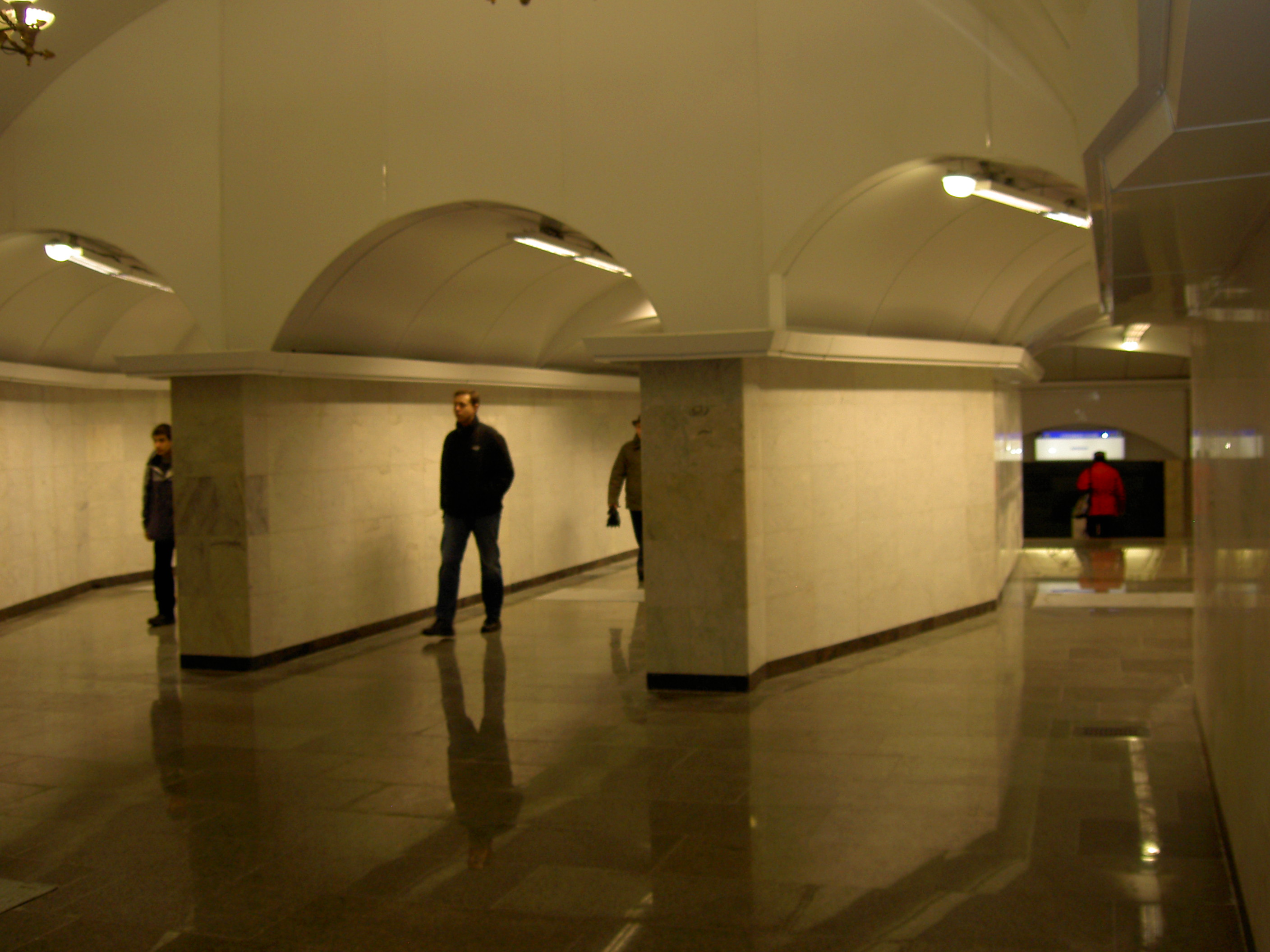 Crossing between metro stations «Puskhinskaya» and «Zvenigorodskaya».